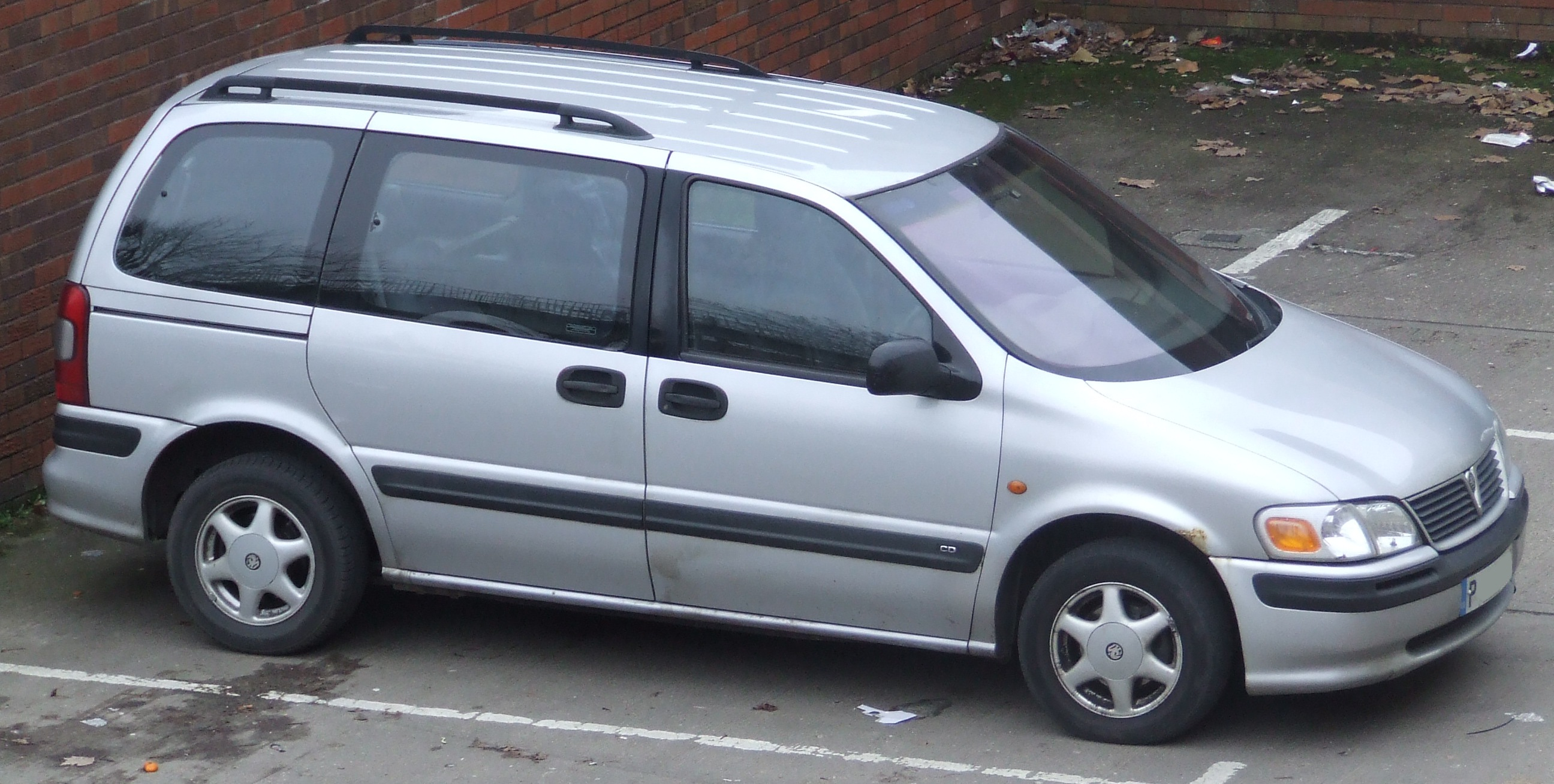 1996-97 (P) Vauxhall Sintra CD